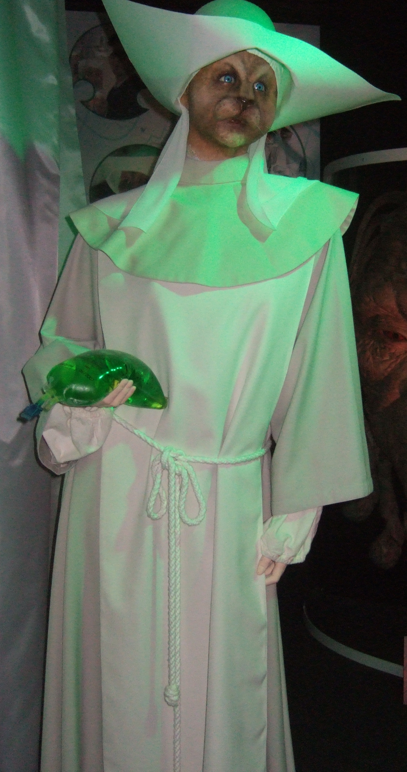 Cat nurse from Doctor Who Doctor Who Experience